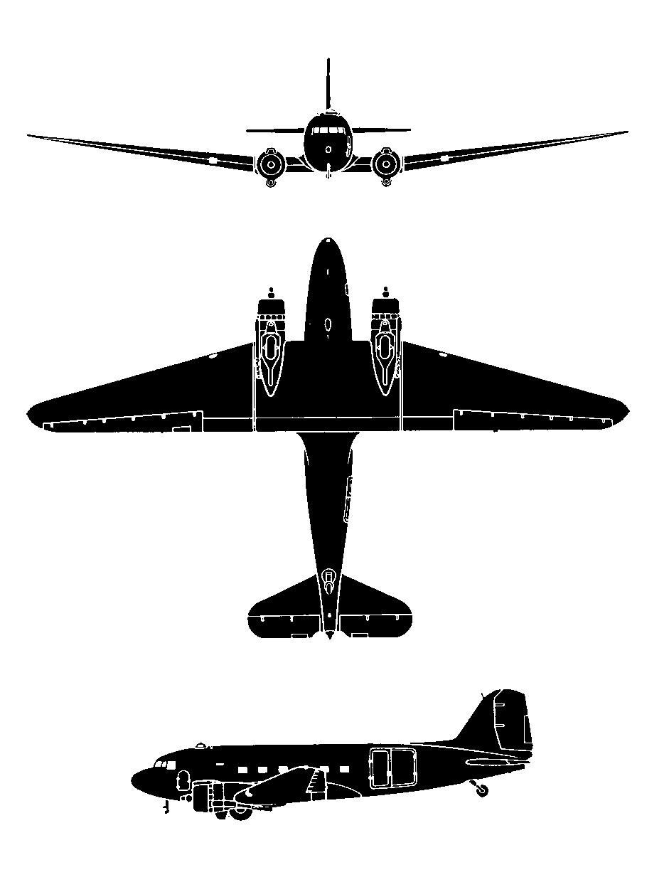 Douglas DC-3 silhouette. The 1952 edition of the Observer's Book of Aircraft used 34 Crown Copyright silhouettes provided by the Controller of H.M. Stationery. An acknowledgements section on page 5 of the book identifies them by page. This image is one of those and since the publication date is pre-1957 is in the public domain.